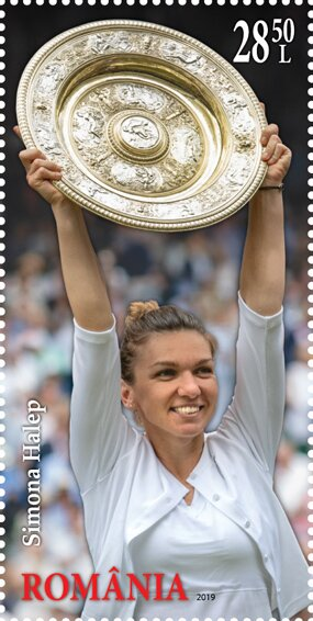 Simona-Halep-Romanian-Tennis-Star